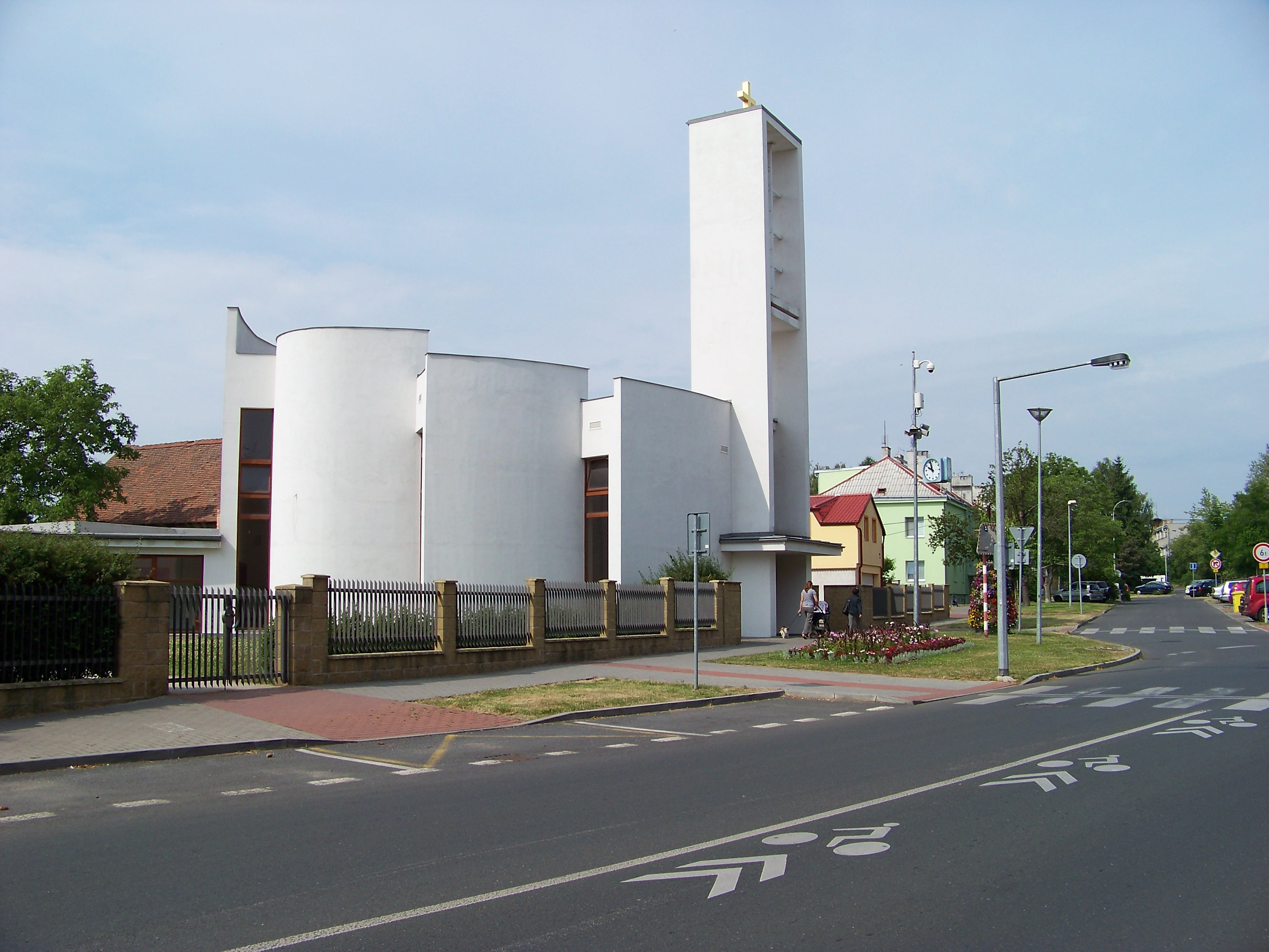 Prague-Kbely, Czech Republic. Železnobrodská street, church of Saint Elisabeth.